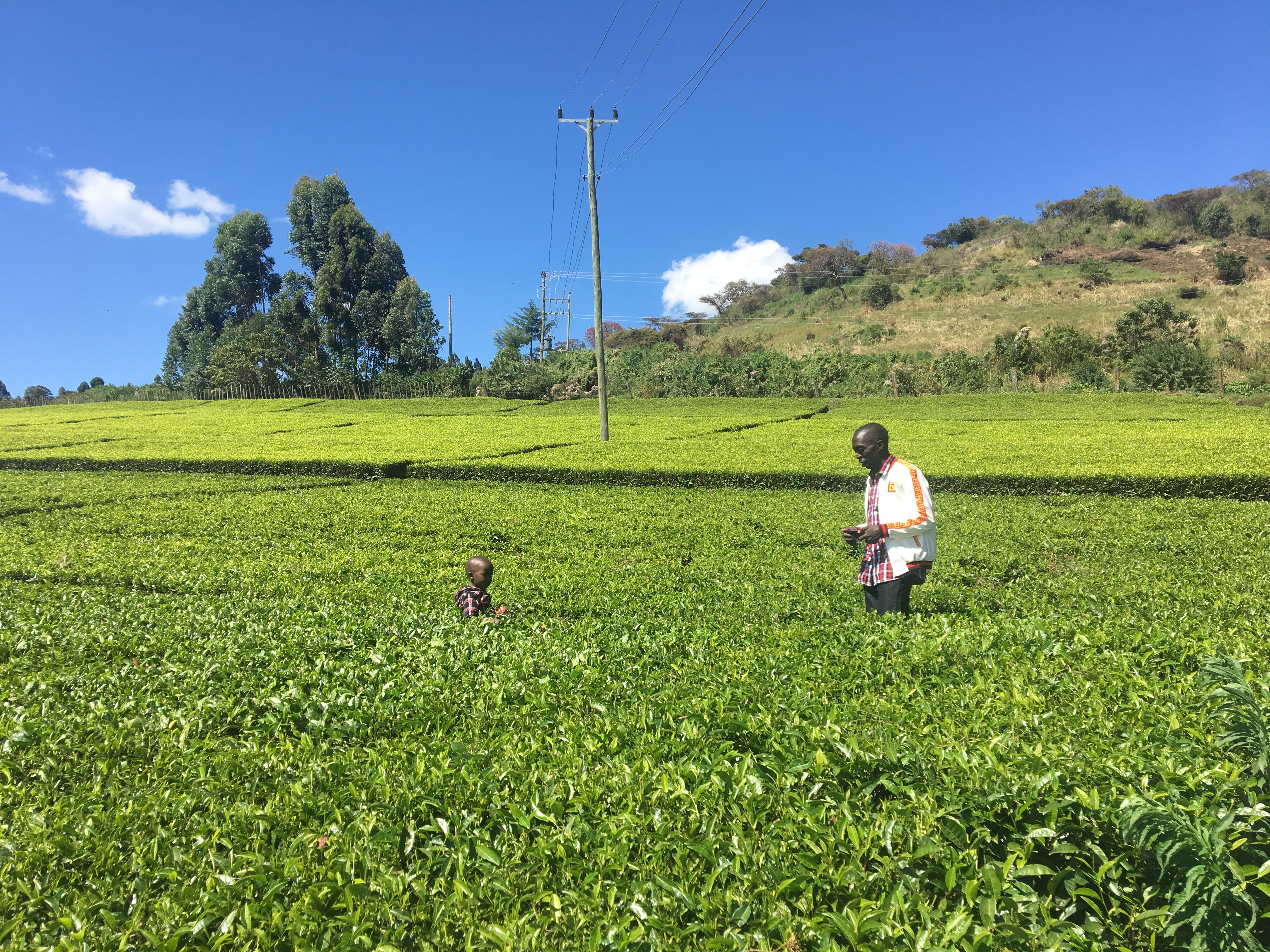 This is an image with the theme "Play" from: Kenya